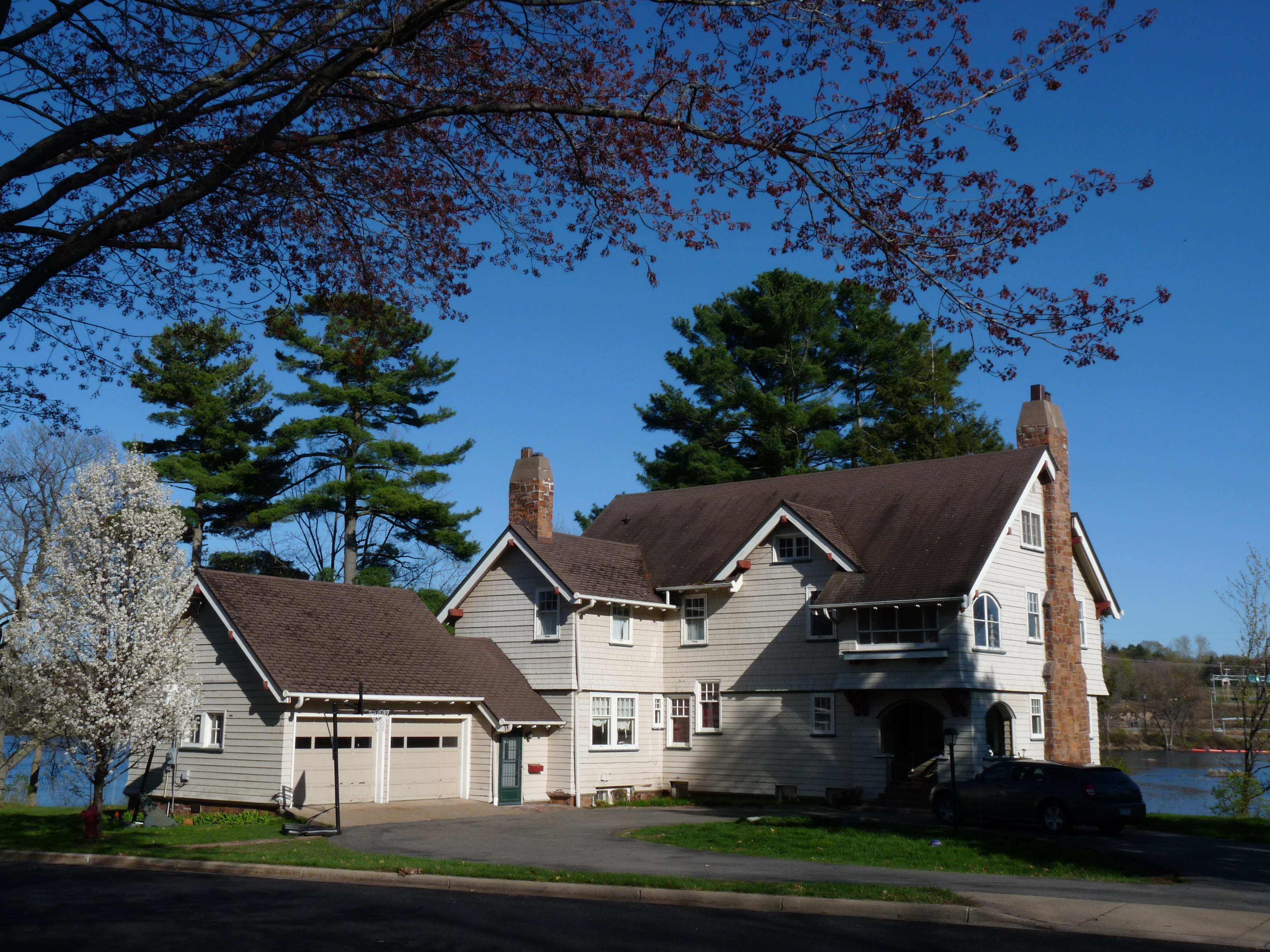 The Karl Mathie House in Mosinee, Wisconsin is a Shingle style house on the Wisconsin River. Mathie was the first president of the company that became Wausau Paper. His house is listed on the National Register of Historic Places.